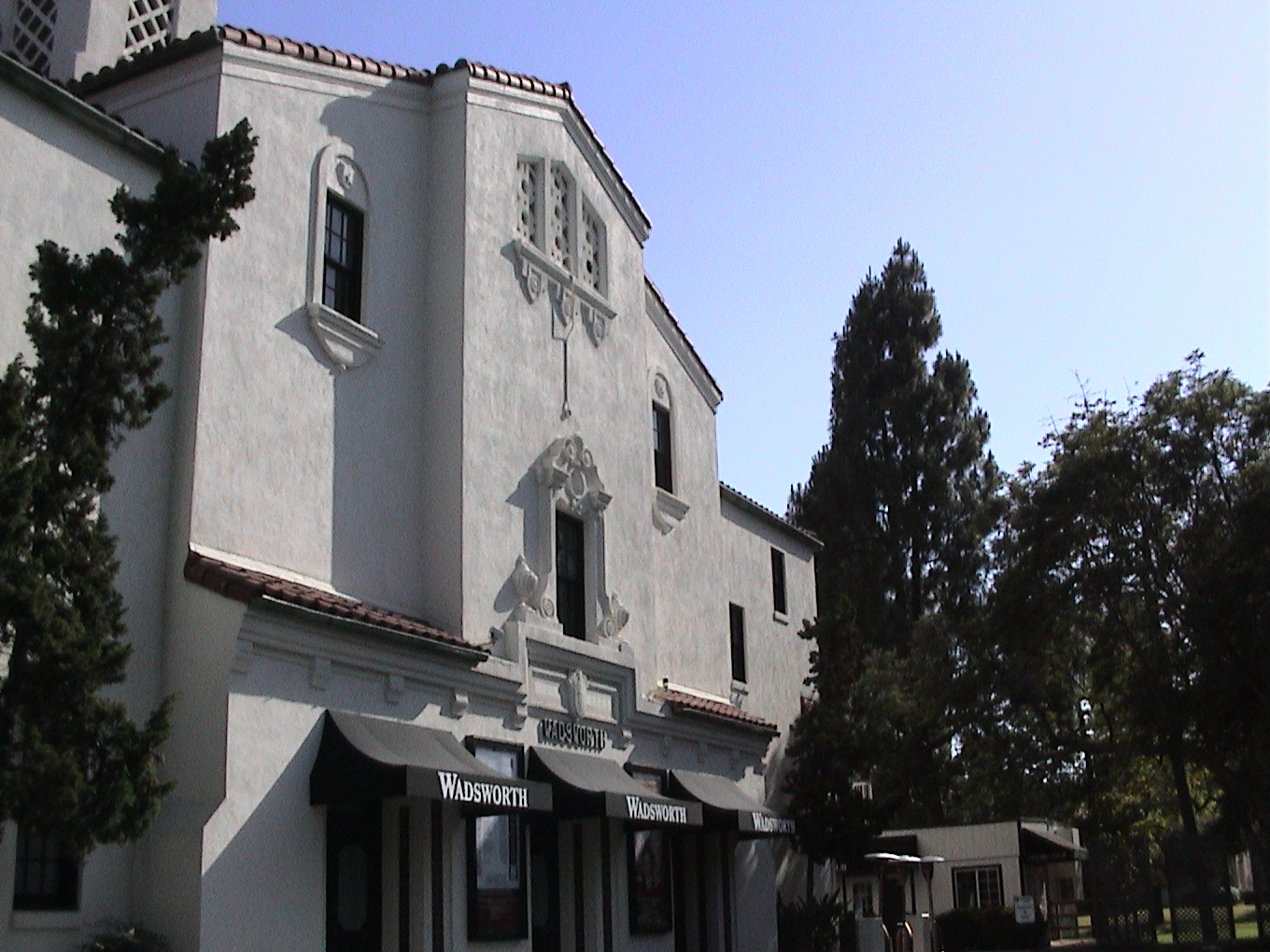 The Wadsworth Theater on the grounds of the VA complex in Los Angeles; angled view.